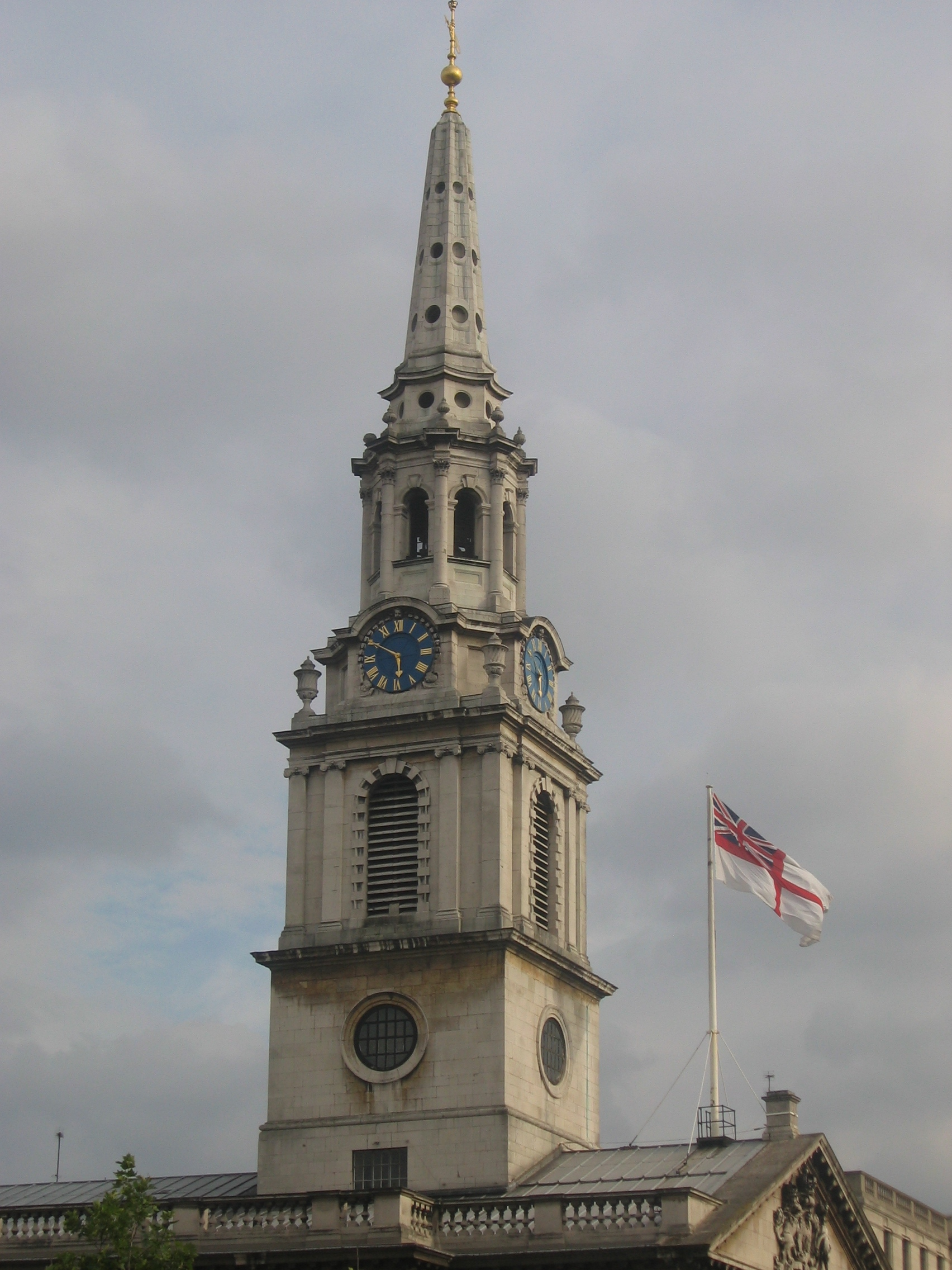 London : St Martin-in-the-Fields